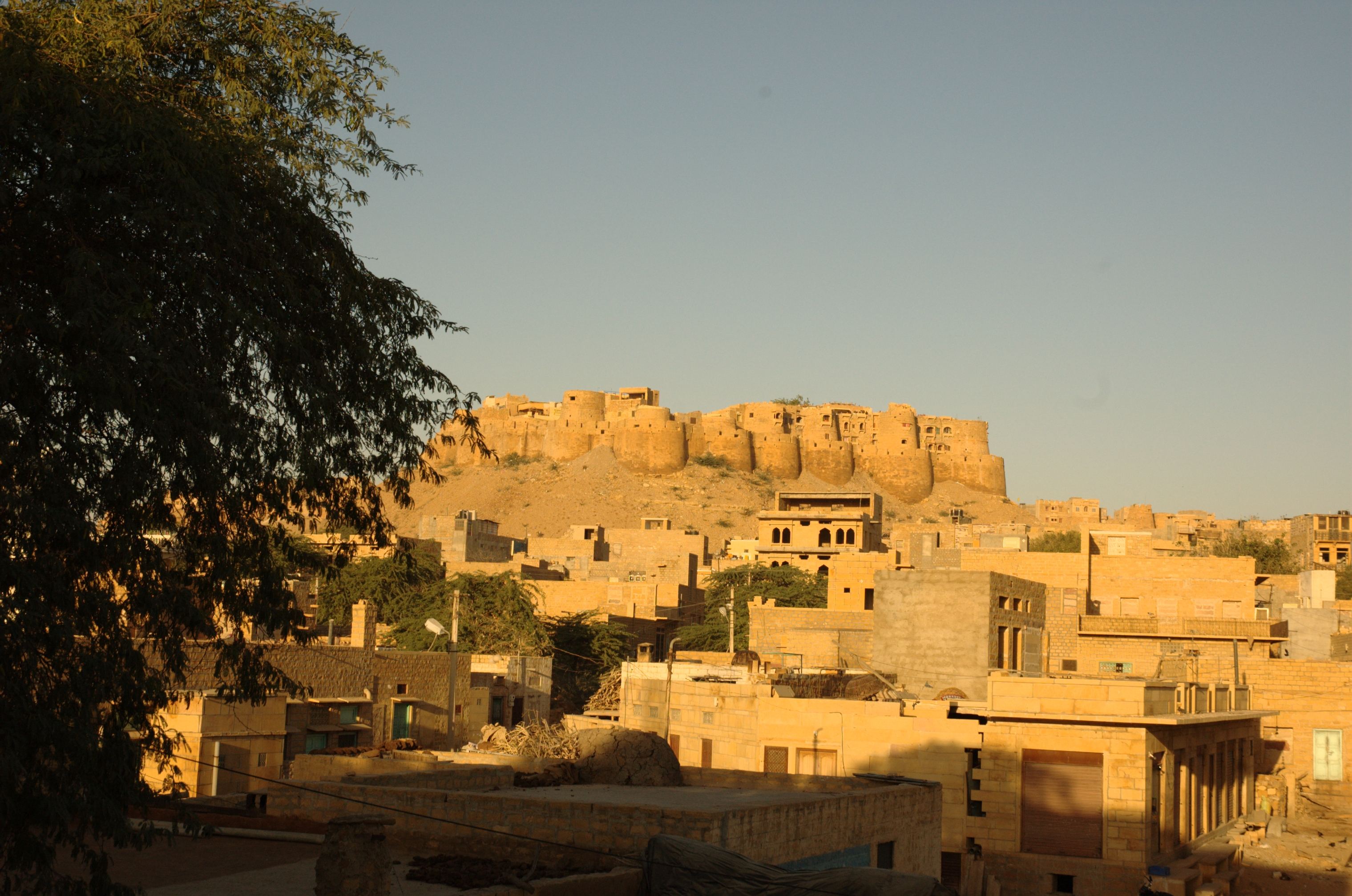 Jaisalmer fort